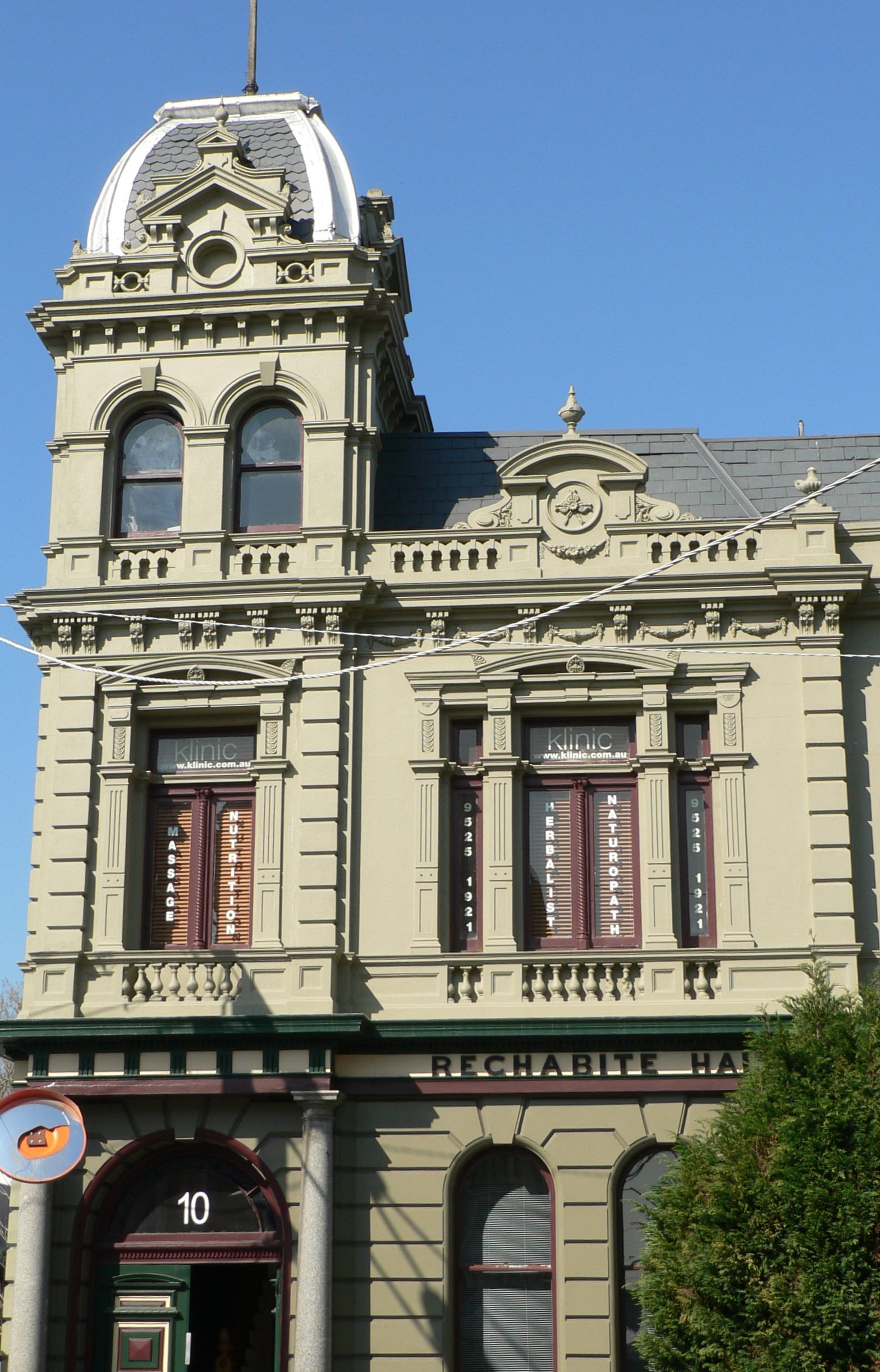 Former Rechabite Hall, Prahran